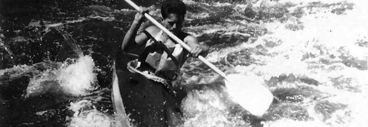 History of Canoe Slalom